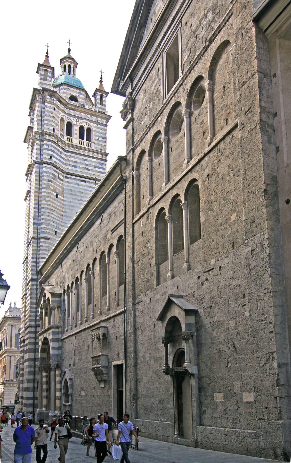 Cathedral of San Lorenzo, Genoa. South side.